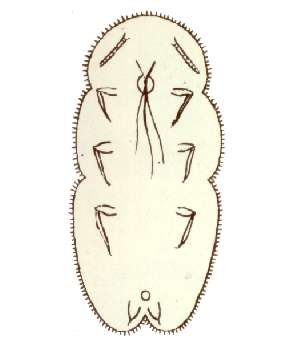 Cottony Thompson scale. Pulvinaria thompsoni (Hemiptera: Coccidae)